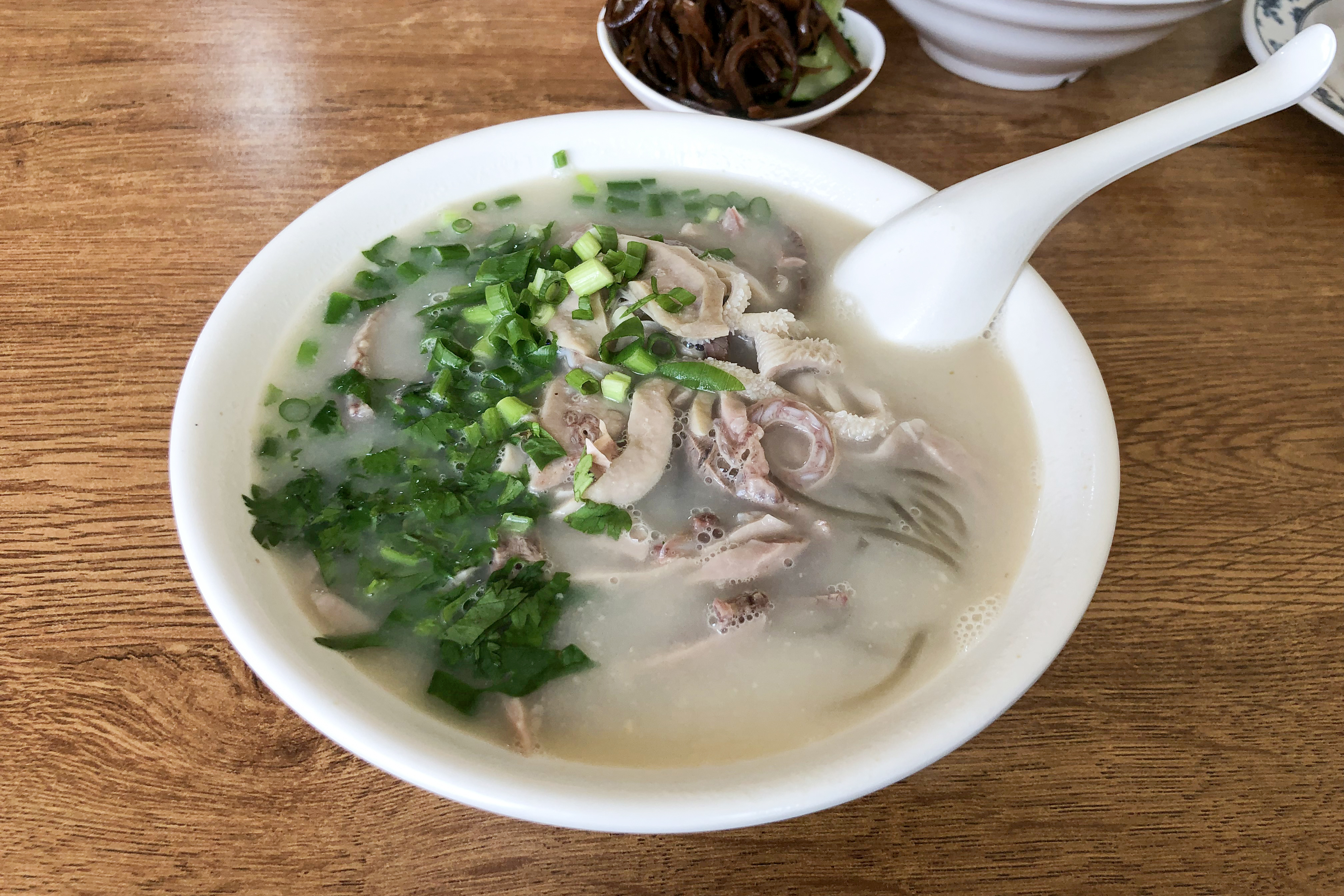 Lamb offal is often cooked like this.